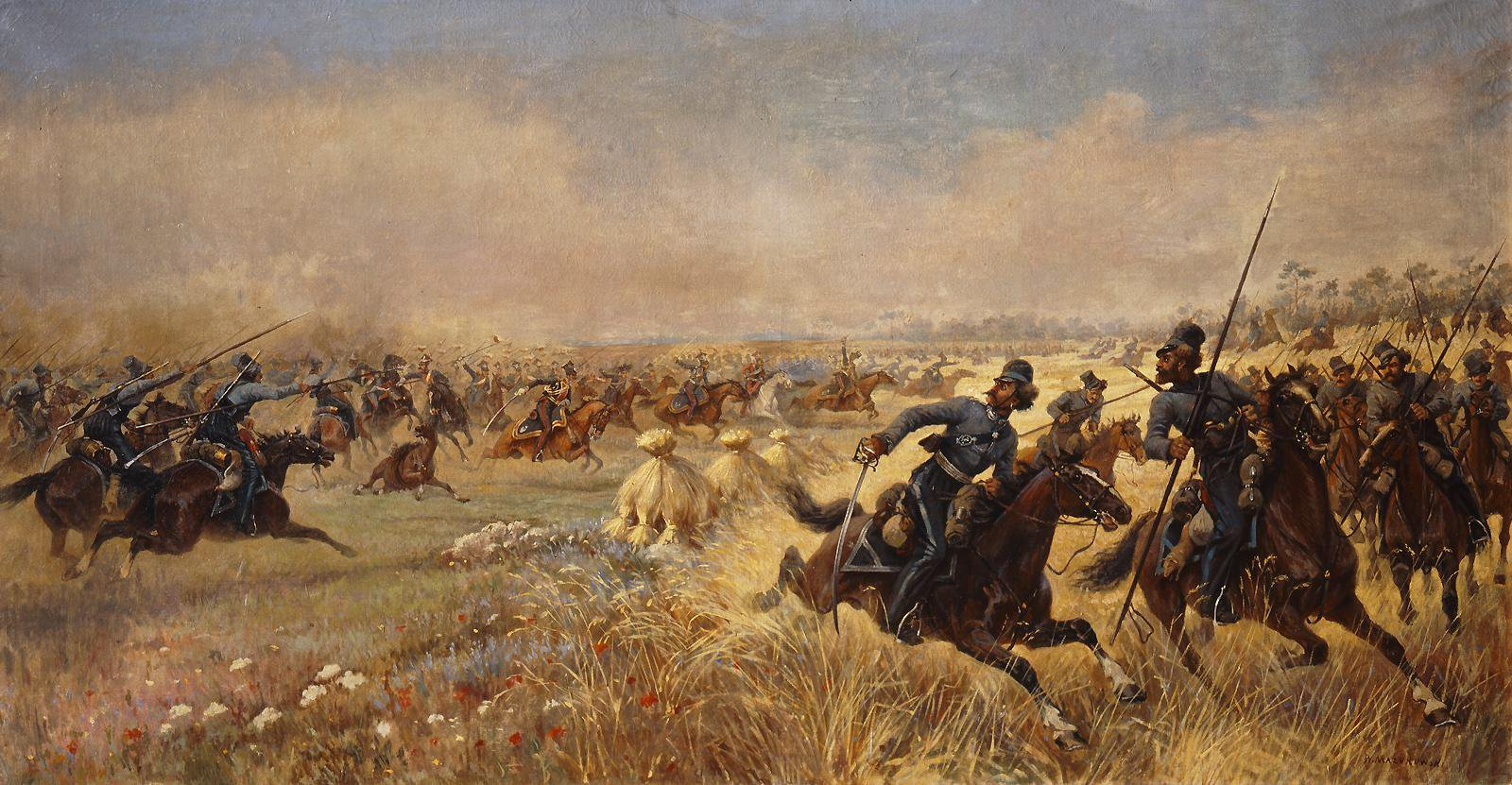 General Platov's Cossacks dispersed by the countercharge of Polish uhlans during the battle of Borodino